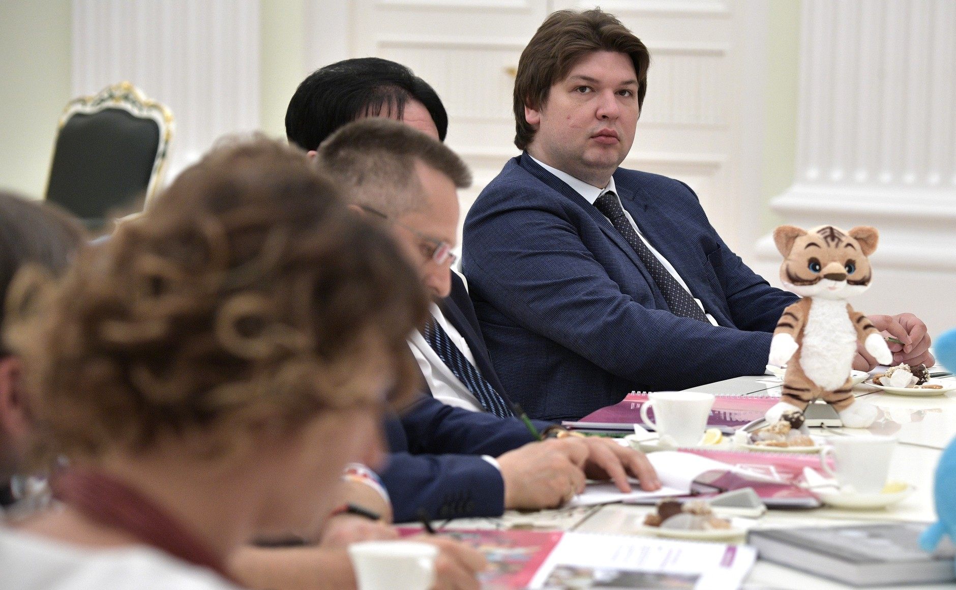 Dmitrii Mednikov during Vladimir Putin's meeting with Russian animators